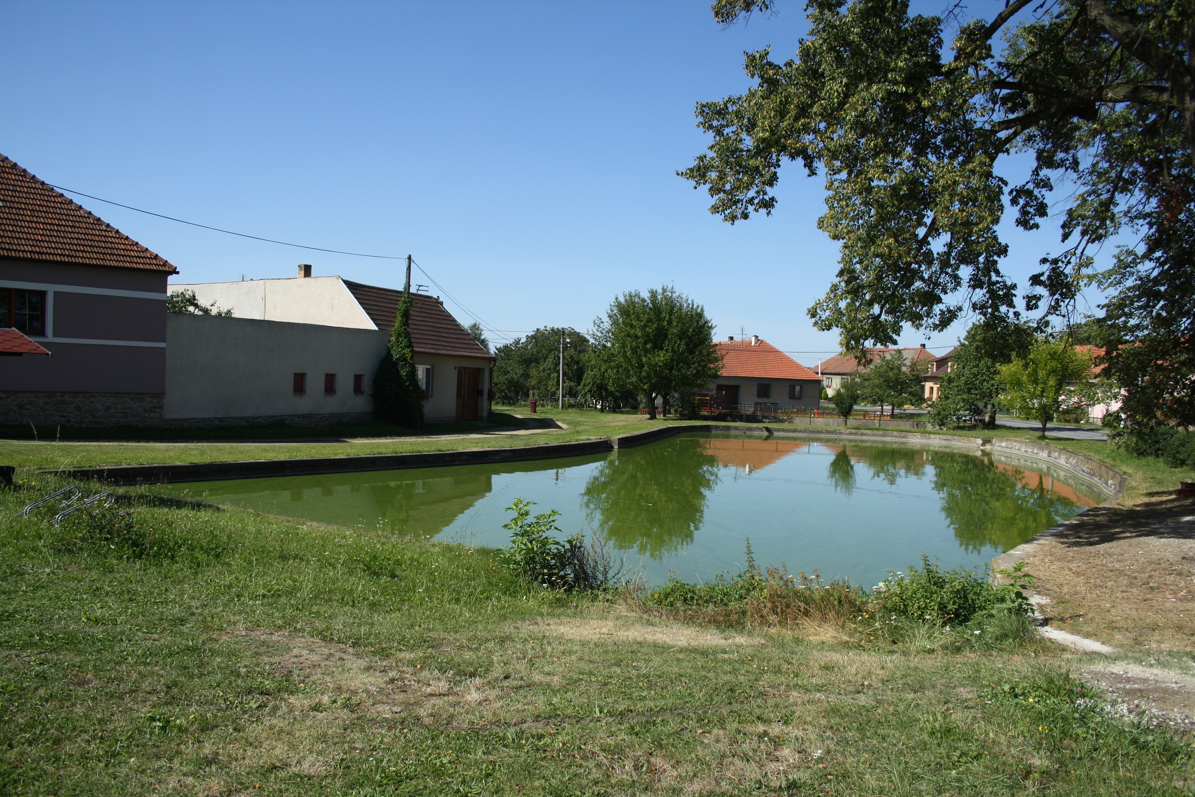 Třesov center with city reservoir.